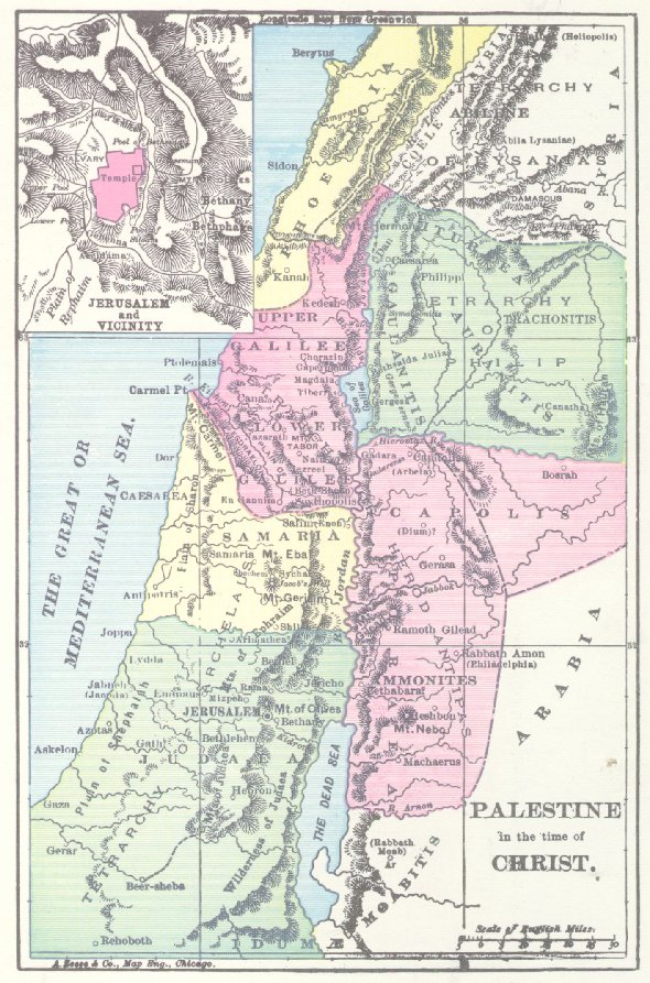 Palestine in the time of Christ